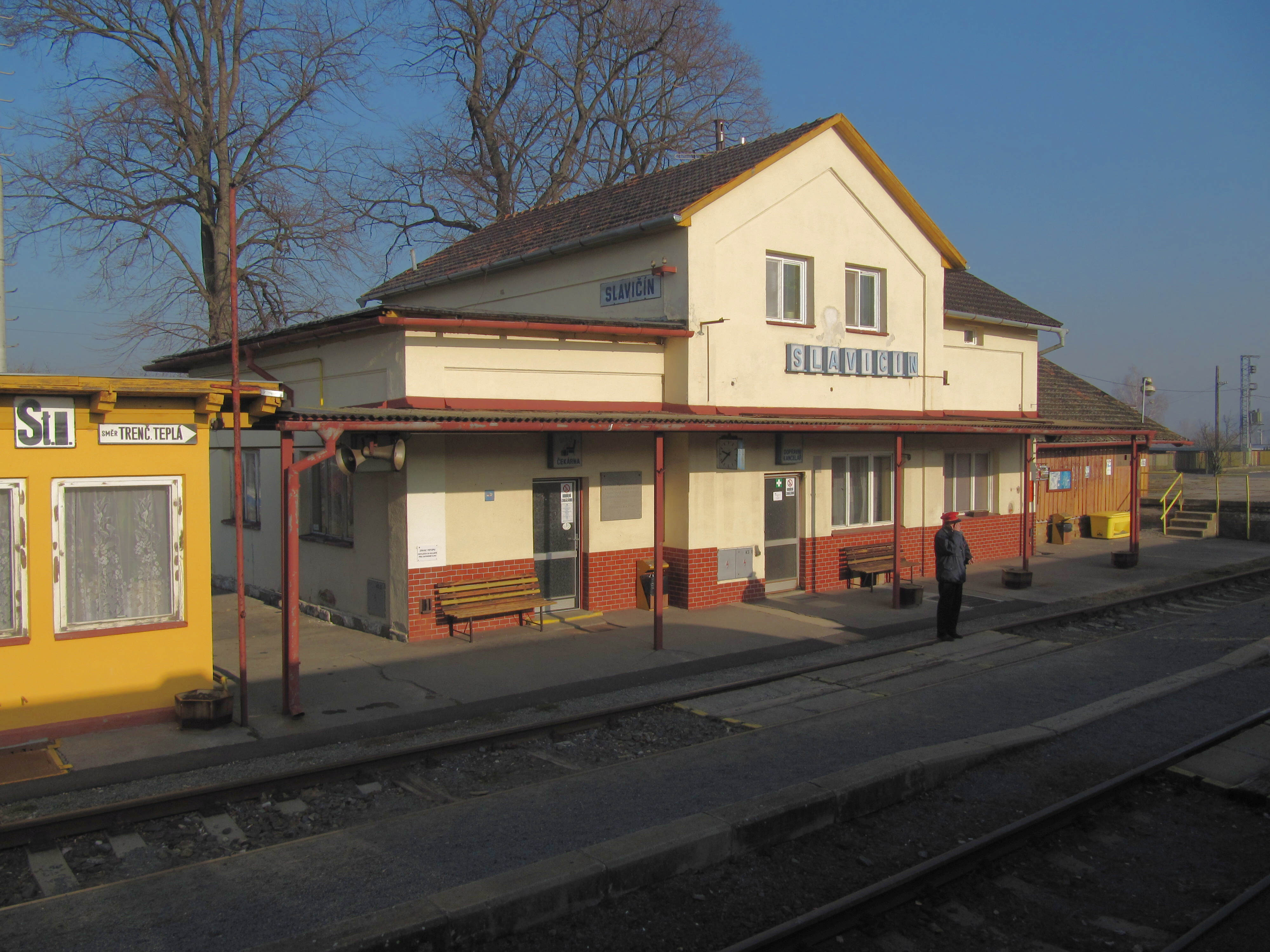 Slavičín in Zlín District, Czech Republic, part Hrádek na Vlárské dráze. Station.